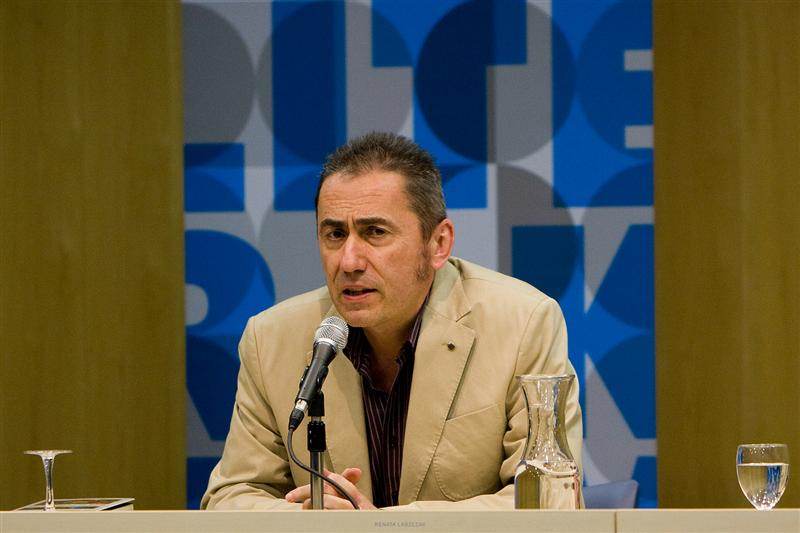 Jabier Muguruza, 2012.